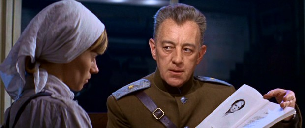 Cropped screenshot of Alec Guinness and Rita Tushingam from the trailer for the 1965 film Doctor Zhivago.